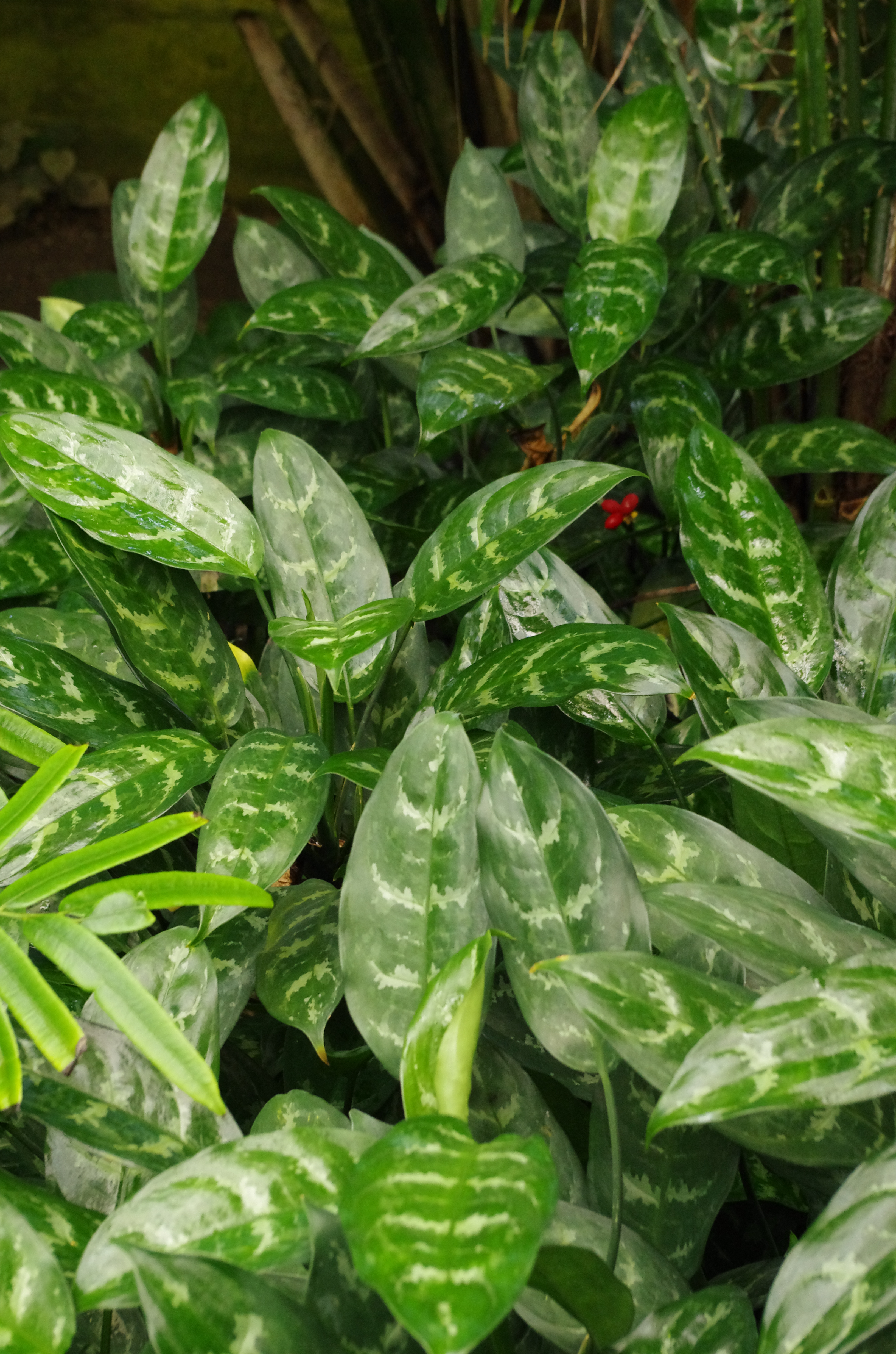 Aglaonema marantifolium at the ÖBG Bayreuth